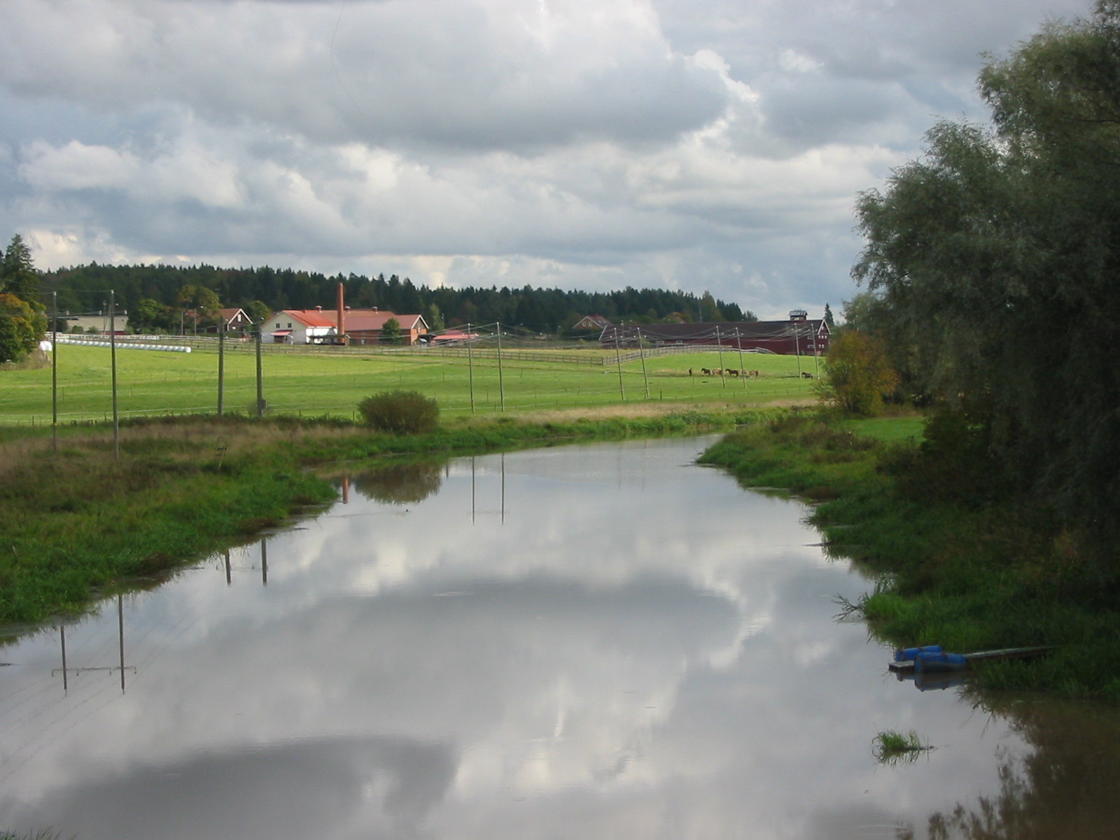 River Loimijoki in Ypäjä, Finland, seen from the Kurjensilta Bridge.